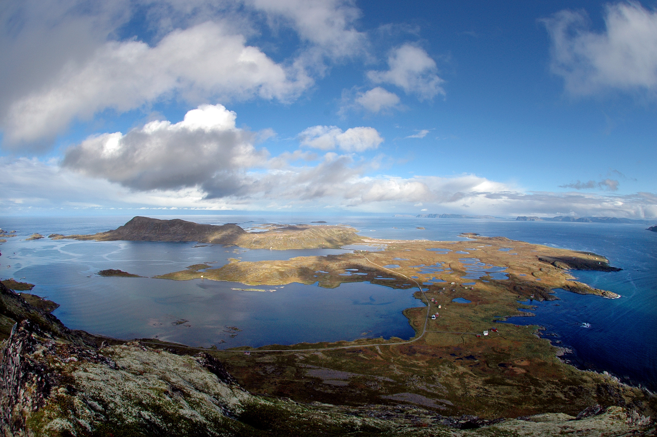 Picture showing Ingøy island in Måsøy municipality, Finnmark, Norway.